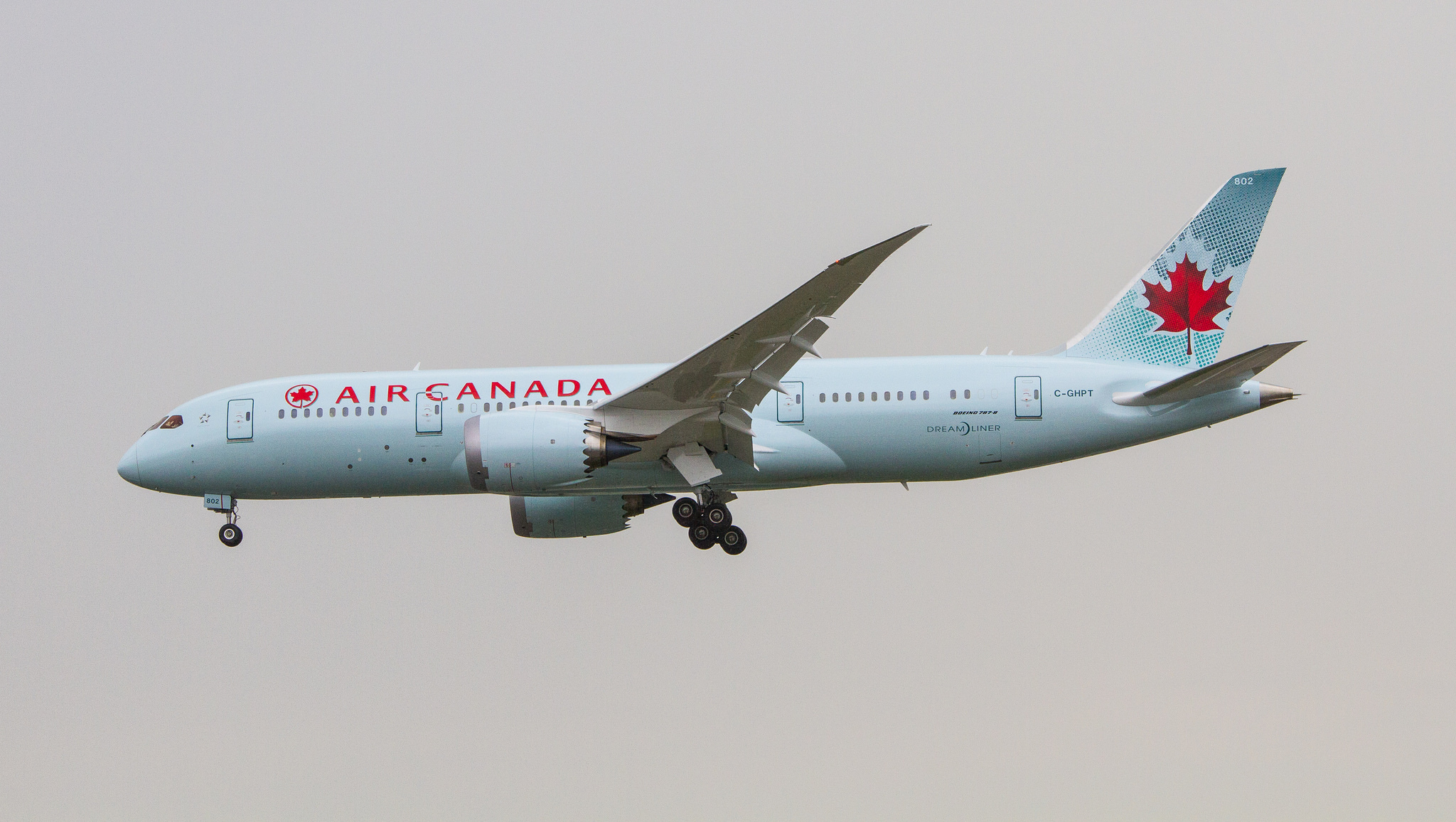 Air Canada's second 787 (C-GHPT) on approach to Pearson Airport Toronto.